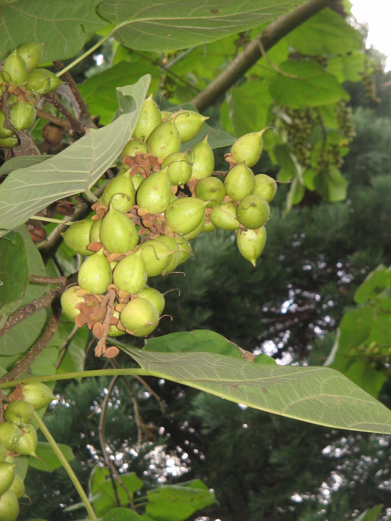 Paulownia tomentosa fruits